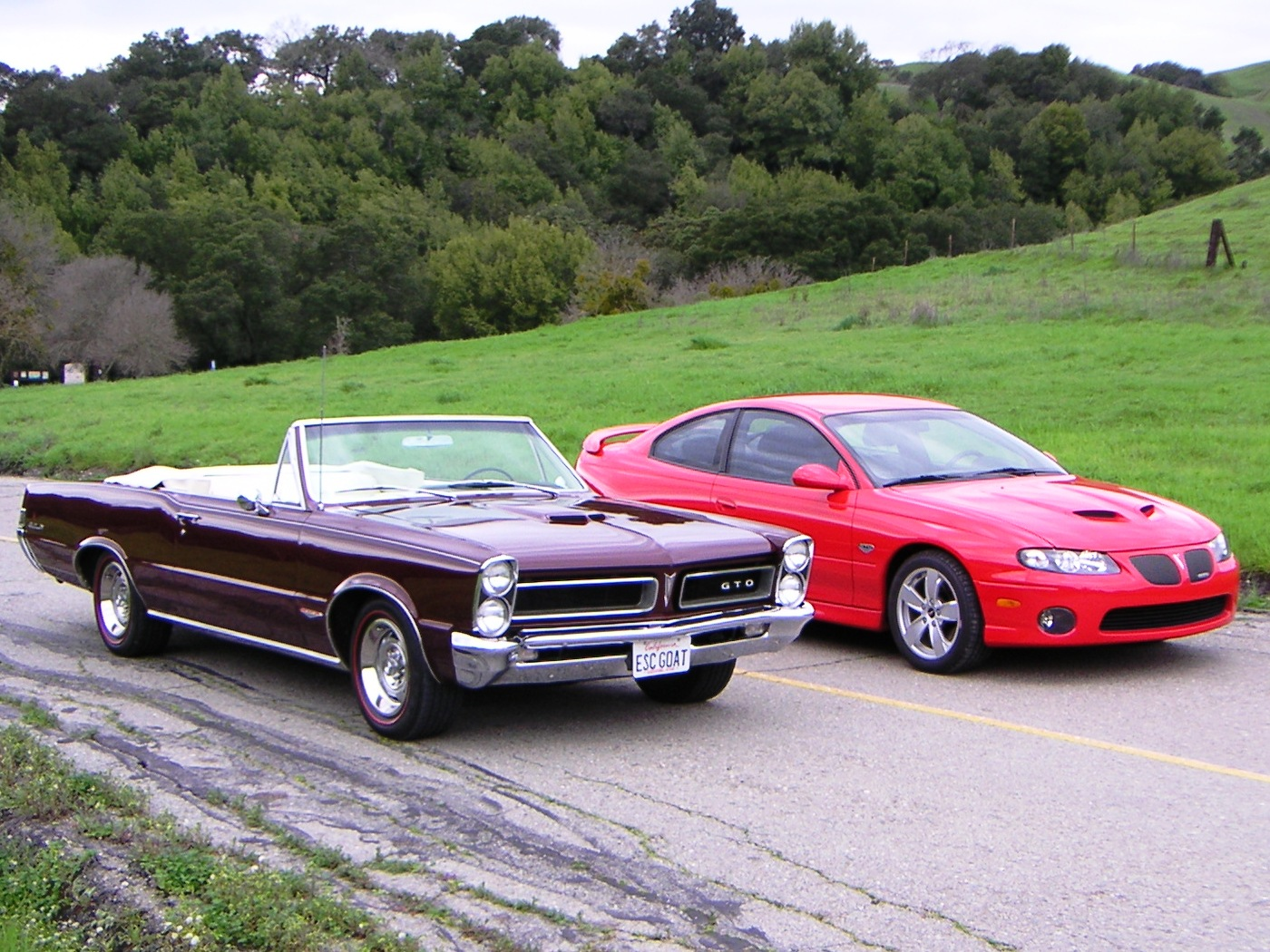 1965 Pontiac GTO convertible, owned by Robert Doten, and 2005 Pontiac GTO coupe, owned by Pontiac Motor Division of General Motors. Photo from Doten's private collection of personal photos.